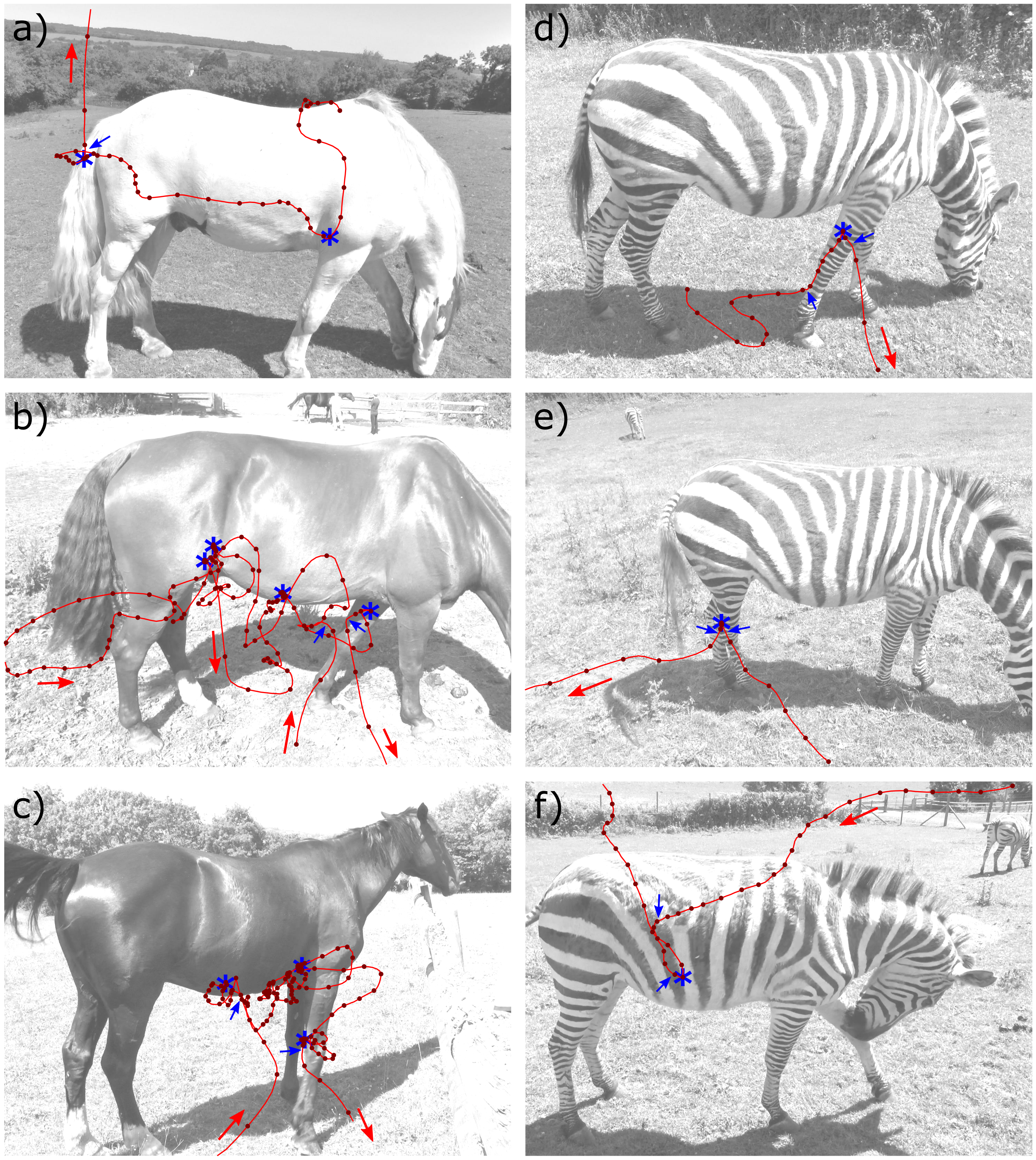 Examples of horsefly flight trajectories around domestic horses (a-c) and captive plains zebra (d-f). Red line indicates the flight path and dark red dots show position at 0.1s intervals. Red arrows indicate direction of flight. Blue stars show points of contact or landings on the equid. Blue arrows show the end position of the approach and start position of the leave phases of flight. These markers are associated with manoeuvres that show changes in both direction and speed, and where this could not be reliably identified (e.g. approach in a) the data were omitted from analysis.